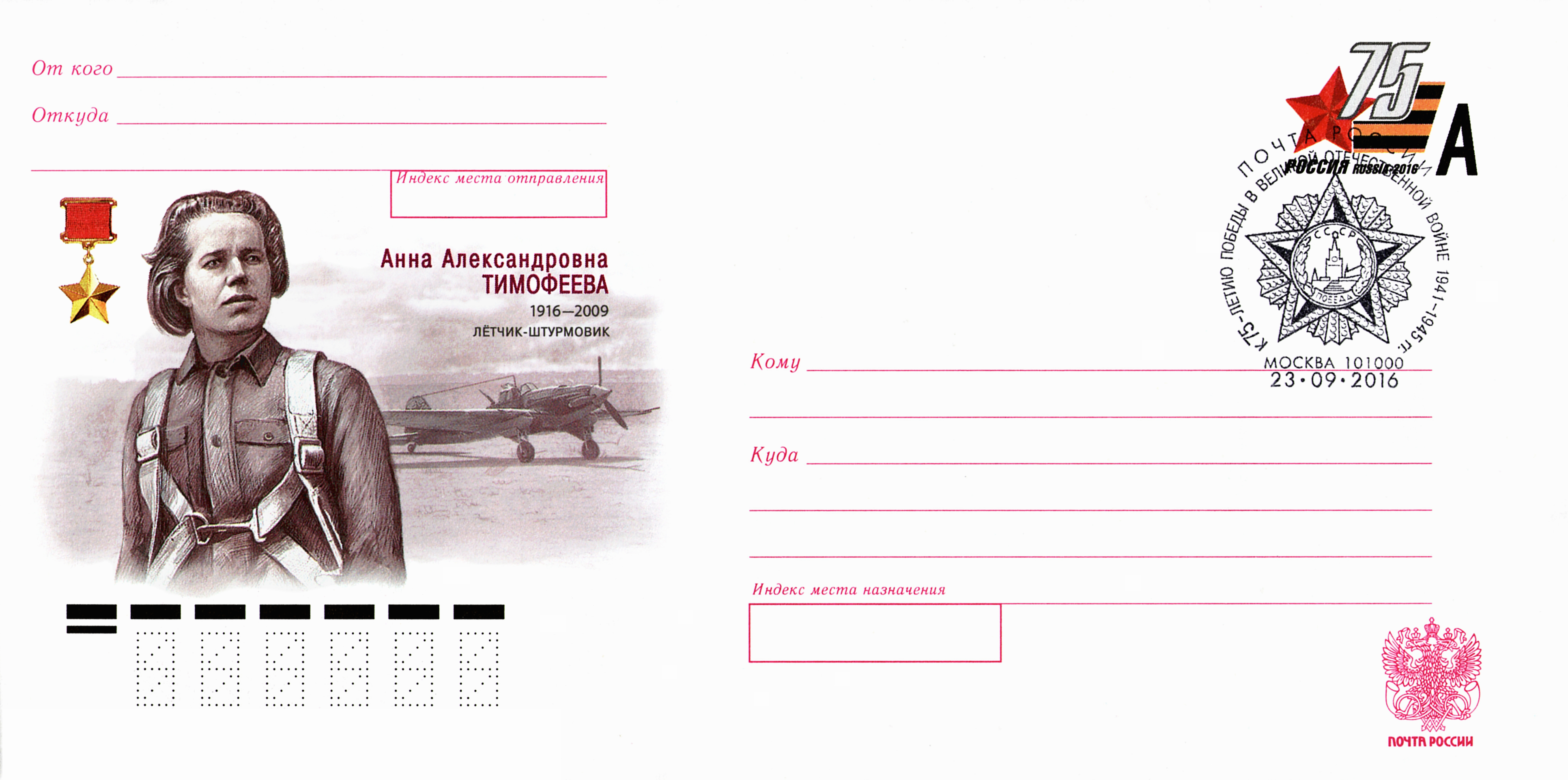 The 75th anniversary of the Victory in the Great Patriotic War (an ongoing series of postal stationery envelopes). The 100th birth anniversary of Anna Timofeeva (née Yegorova, 1916—2009), a pilot of the Red Army Air Force, a Hero of the Soviet Union. The illustrated postal stationery envelope with commemorative stamp, Russia, 23 September 2016. PTC Marka Catalogue No. 284/кор-16. Envelope paper VBM (ВБМ) with watermarks “ПОЧТА РОССИИ”. Offset printing. Size of the envelope: 110×220 mm. Print run: 1,000,000. The non-denominated stamp of the ongoing series: the red star, the ribbon of Saint George, numerals “75”. The illustration: the portrait of Anna Timofeeva (Yegorova) with an Ilyushin Il-2 attack bomber in the background; a Gold Star Medal of the Hero of the Soviet Union. Pictorial cancellation: Moscow, 23 September 2016, Catalogue of PTC Marka No 2016/288-ш.